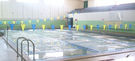 Jefferson's Swimming Pool, Picture Taken by Tim Cummings, JHS Webmaster, Spring 2006